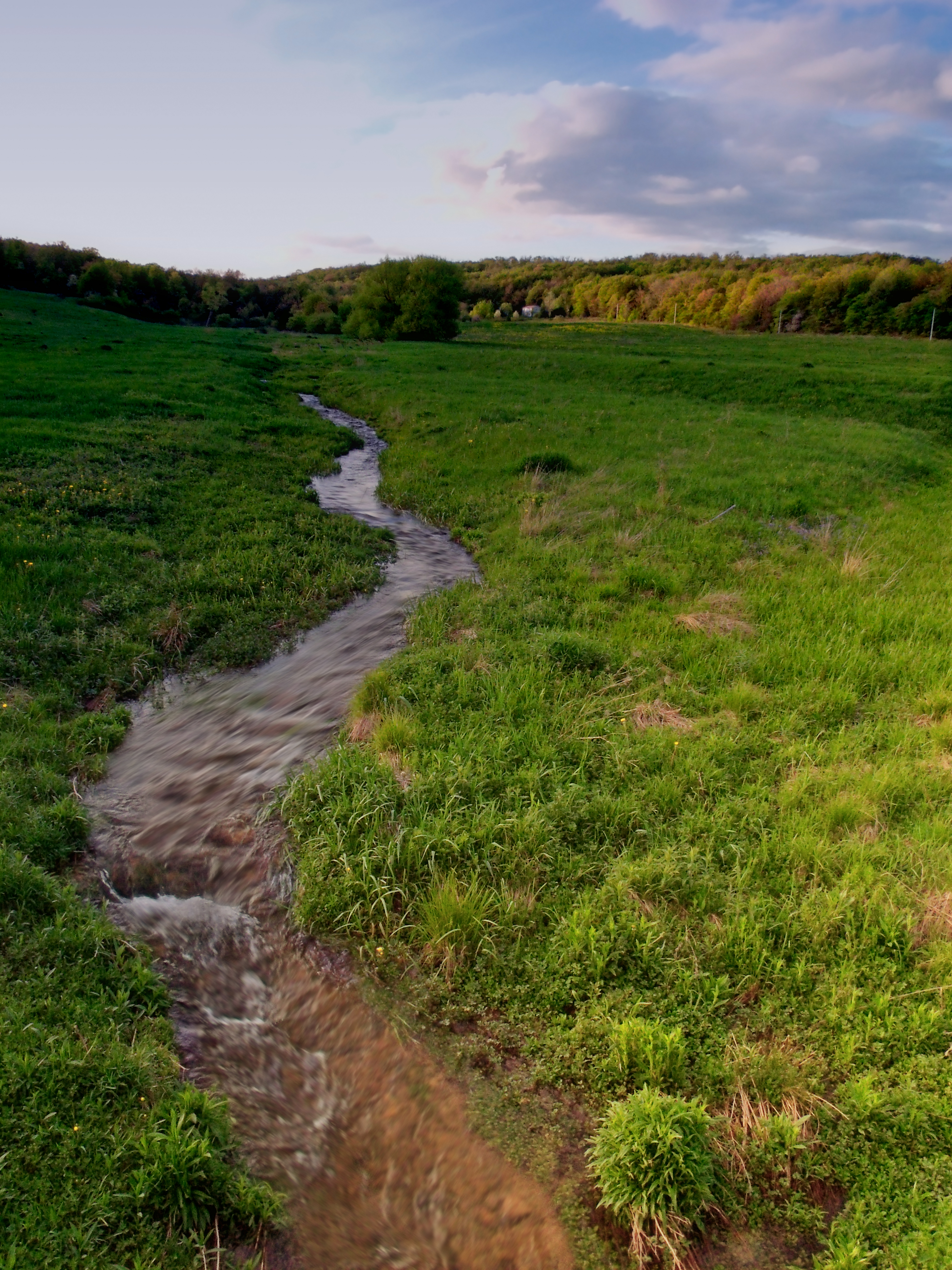 Headwater stream of the Allegheny River, Potter County, as seen from a turnout on PA Route 49. The stream originates as a spring on an unnamed hill, partially visible here, that also gives rise to Pine Creek and the Genesee River. A roadside marker denotes the site. Larger view of the watershed here.